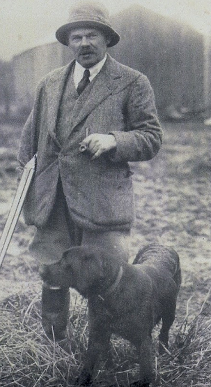 James Herbert Dennis, owner of Nocton Hall, Lincolnshire, circa 1920